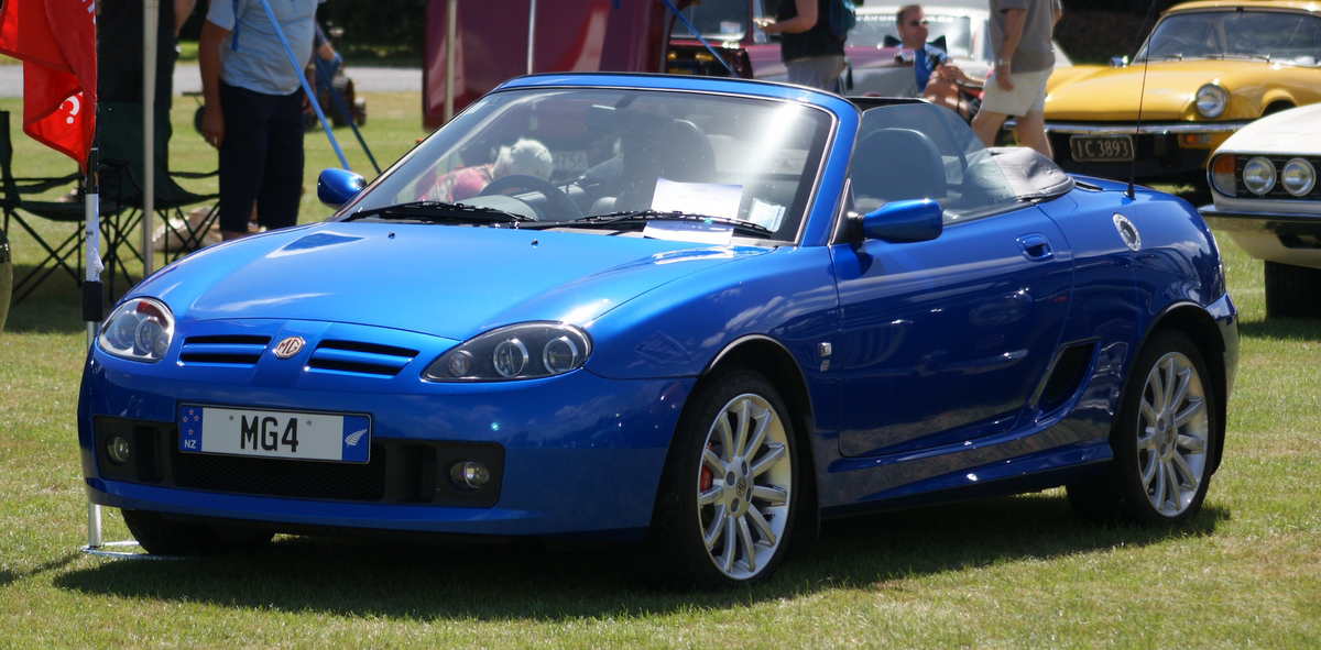 MG TF Wellington British Car Club Day - Trentham Memorial Park - 14 Feb 2010